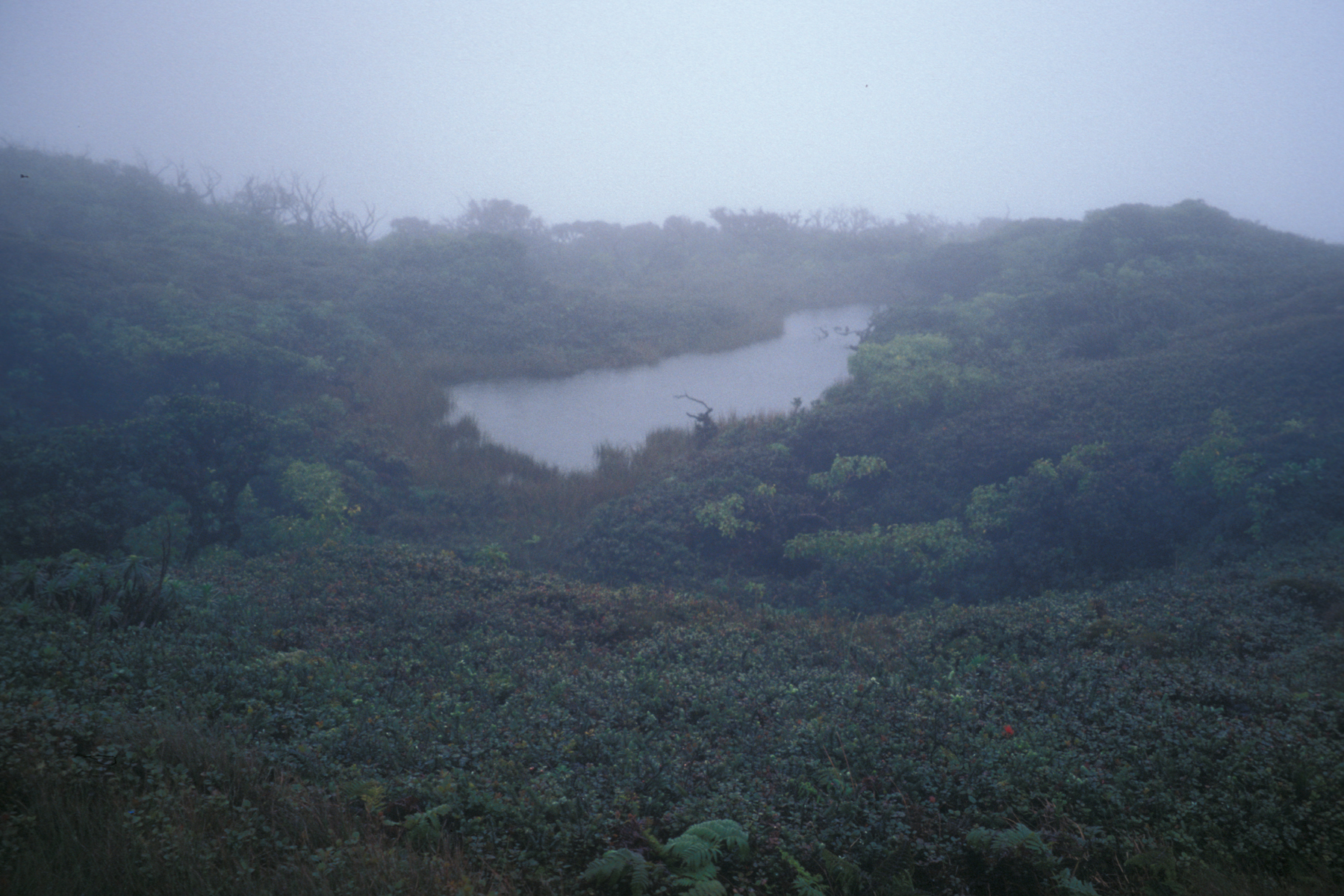 Metrosideros polymorpha (rainforest view Violet Lake). Location: Maui, Puu Kukui